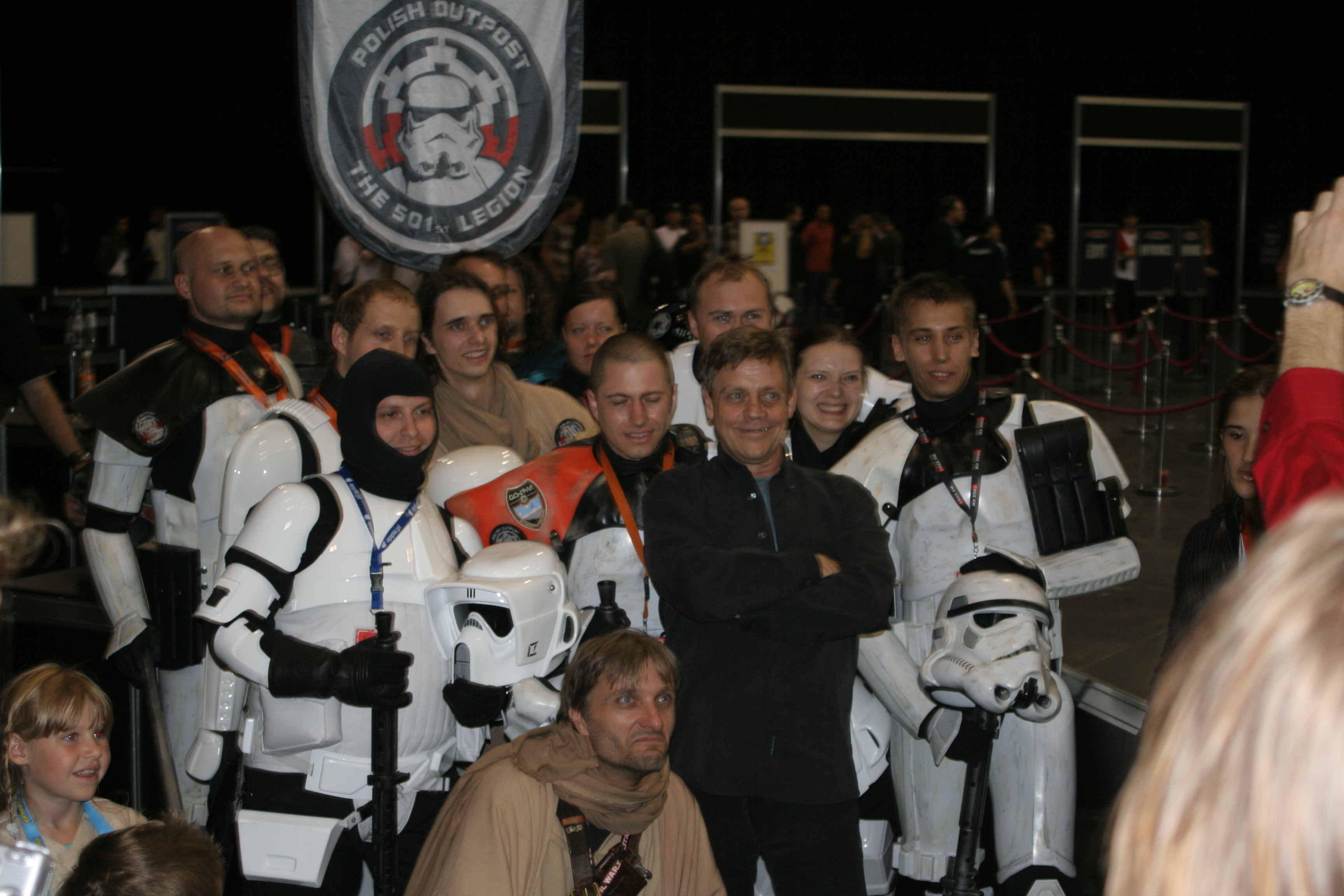 Star Wars 30 Year Celebration. A surreal and fantastic day out A surreal and fantastic day out in the Excell Centre for the Star Wars 30 Year Celebration